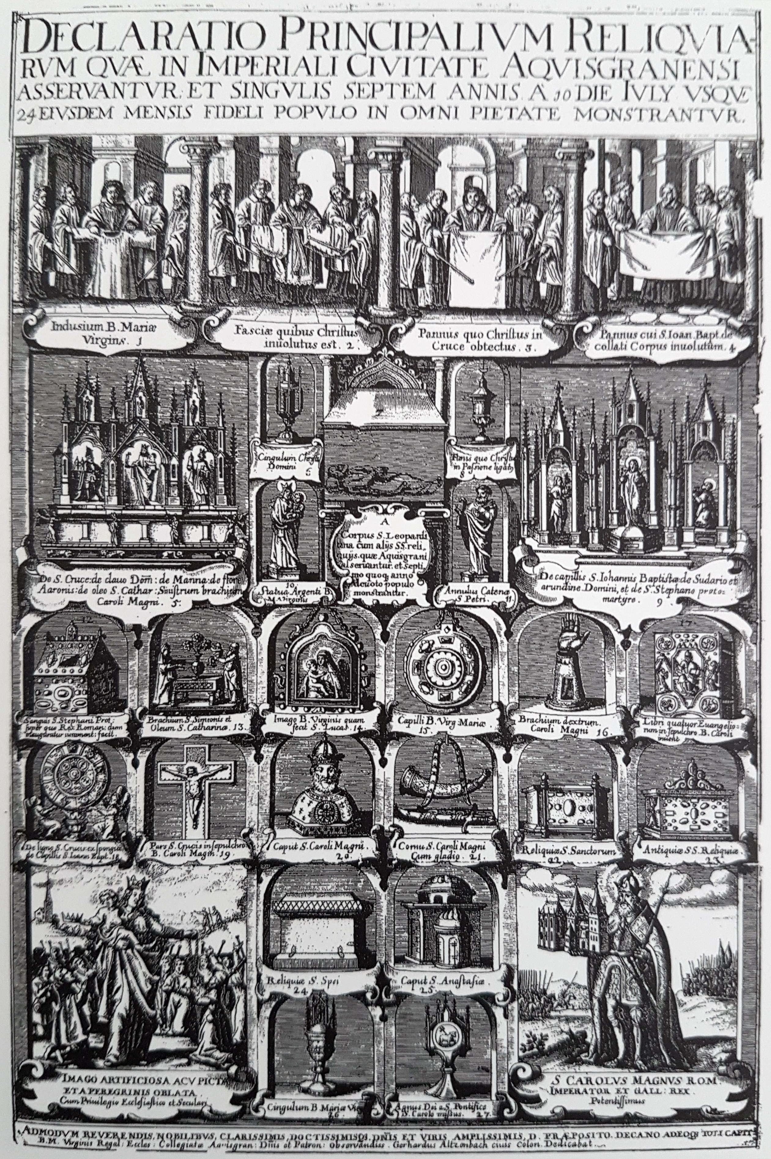 Engraving (Gerhard Altzenbach, Cologne, 1615) of the main relics of Aachen Cathedral, on display every seven years from 10-24 July since the middle ages. Collection of Aachen Cathedral Treasury, Aachen, Germany.